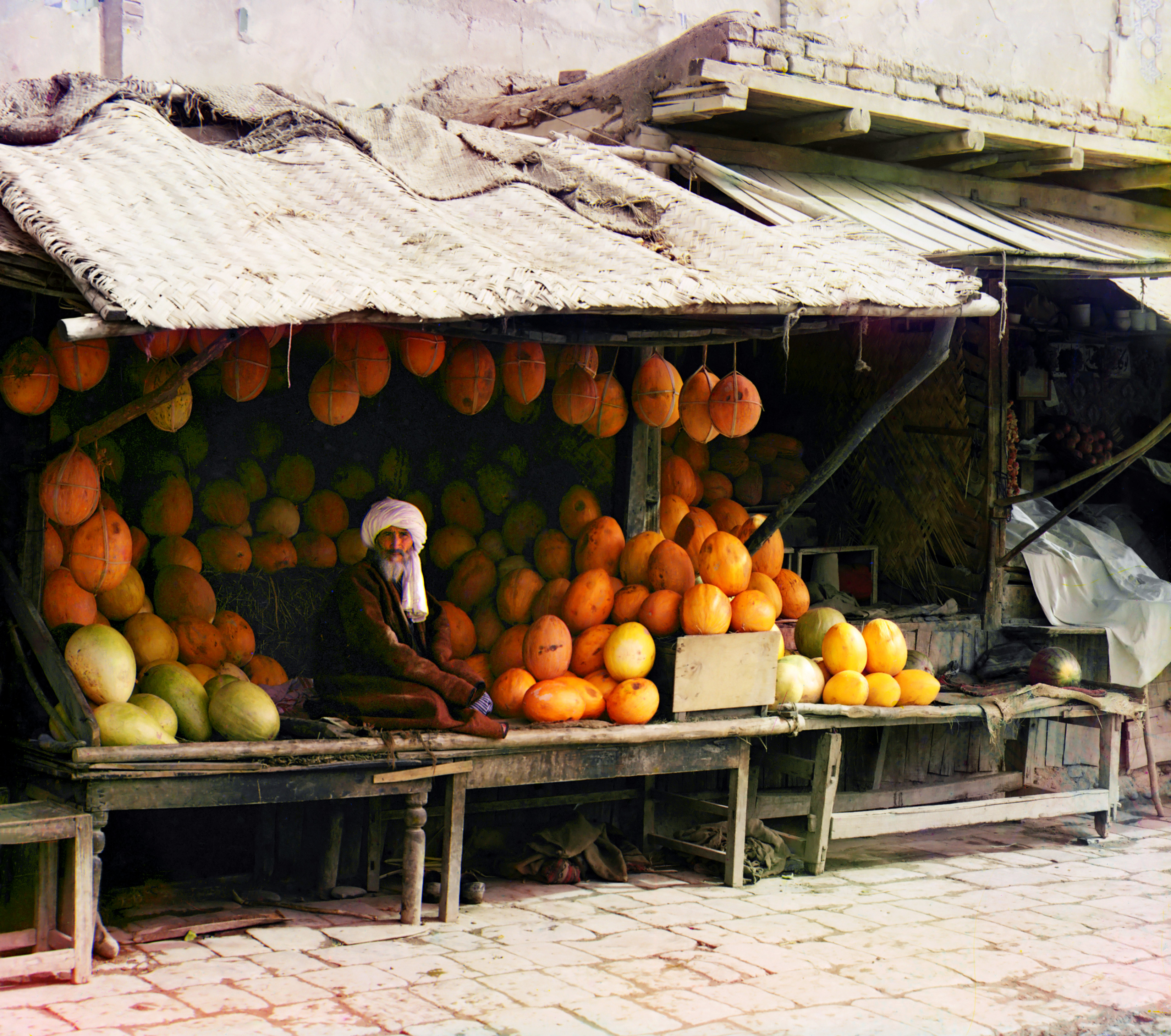 Melon vendor, dressed in traditional Central Asian attire, at his stand in the marketplace of Samarkand in present-day Uzbekistan.